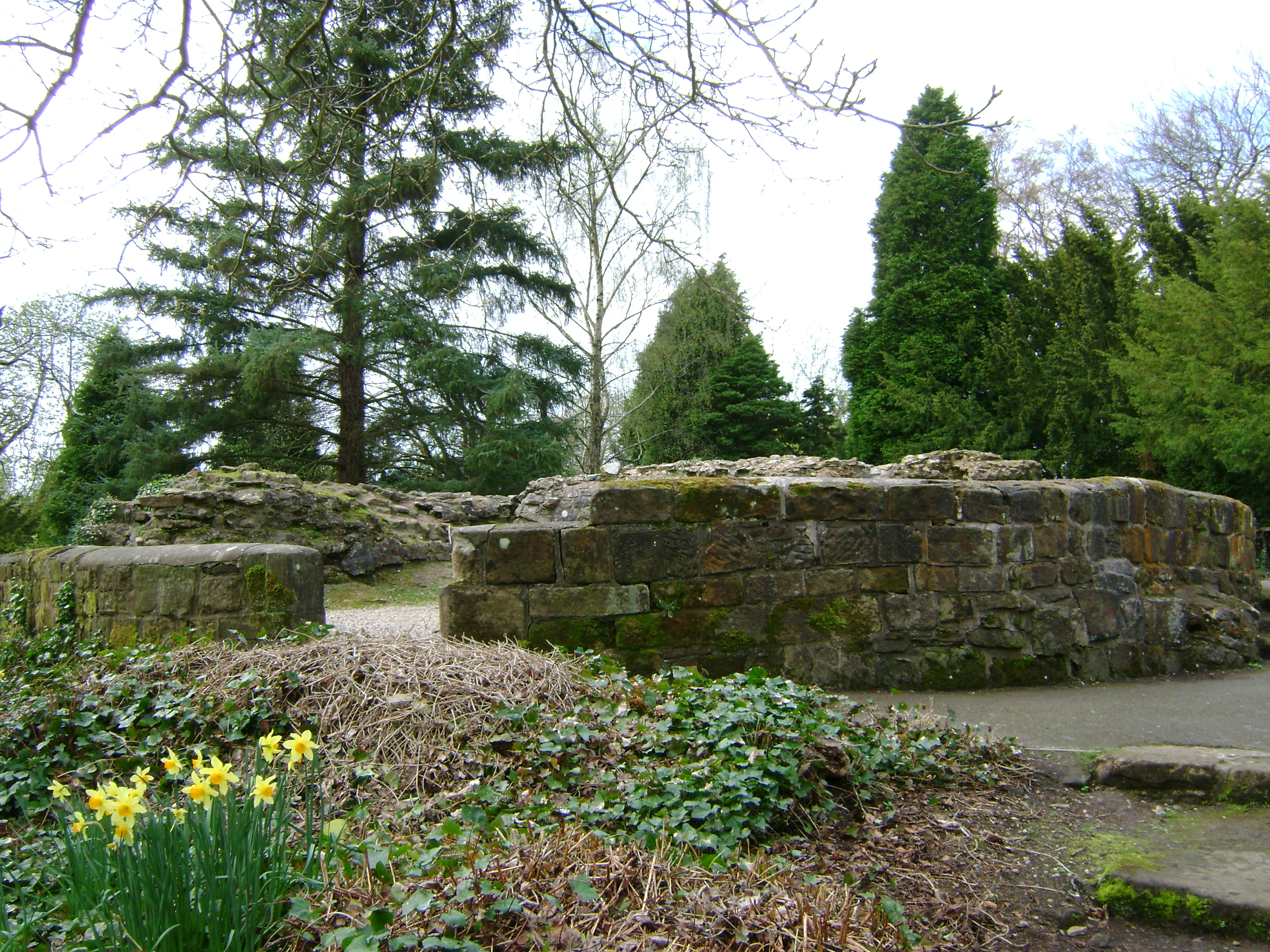 Remains of Malcolm Canmore's Tower, Pittencrieff Park, Bridge Street, Dunfermline, Fife, Scotland, U.K.